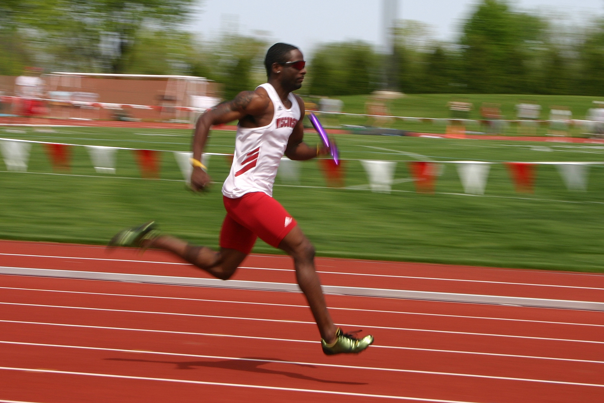 Maniac ran so fast that when he passed you, wouldn`t even see him run by you.